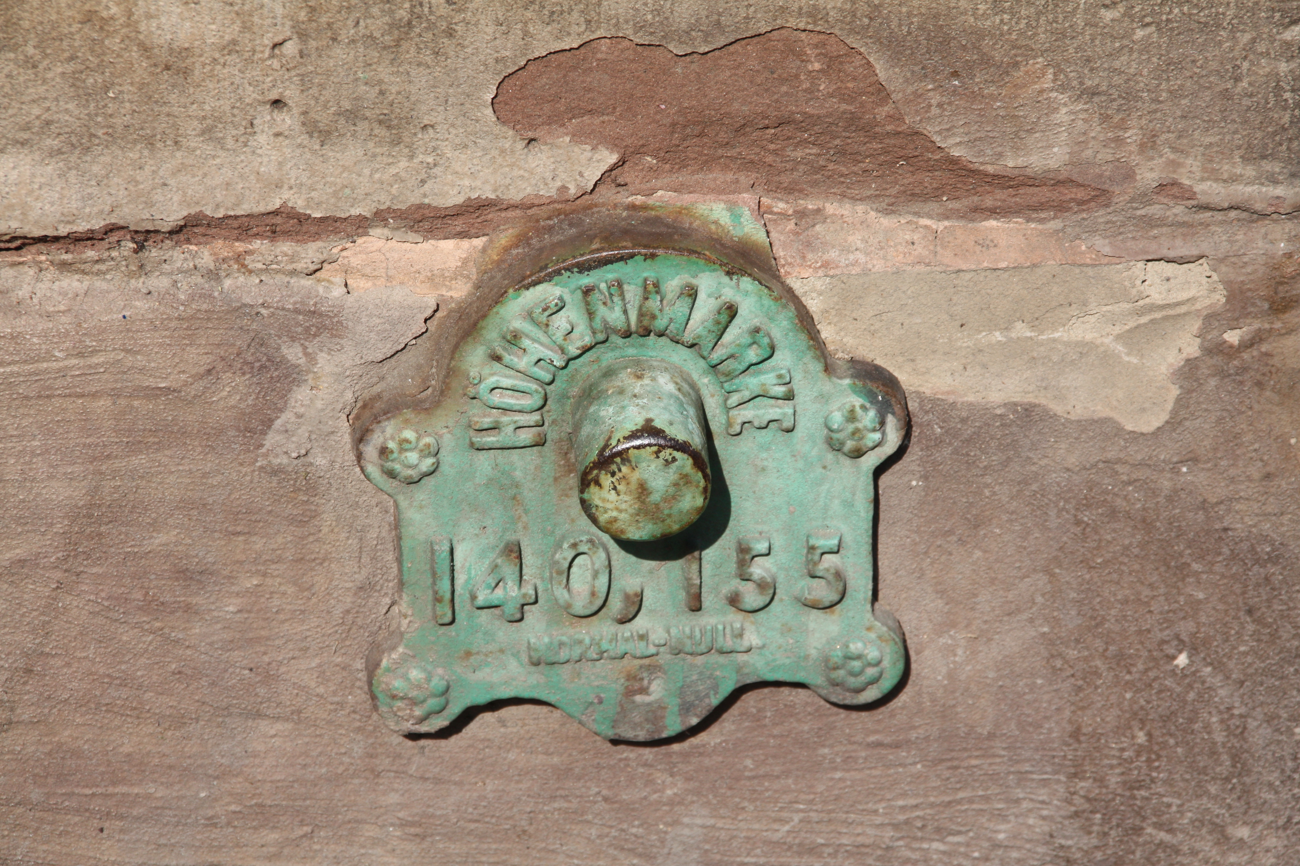 Benchmark in Strasbourg, France